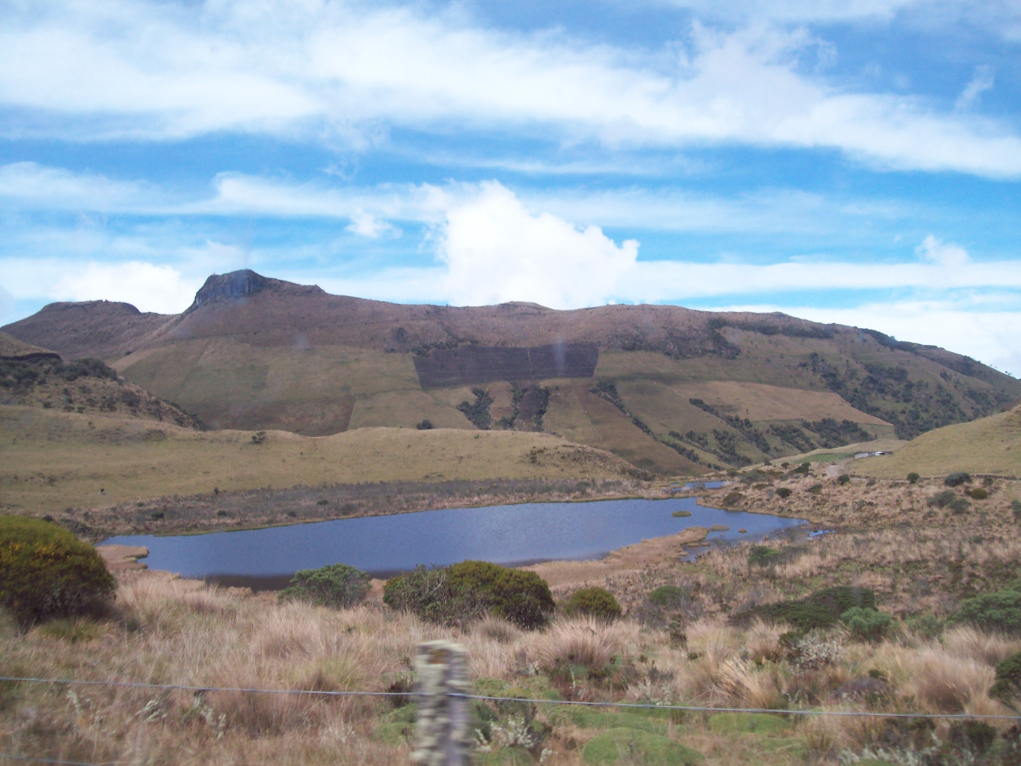 Highlands ended in a peak with all-year snow in departmen of Caldas, near Manizales.